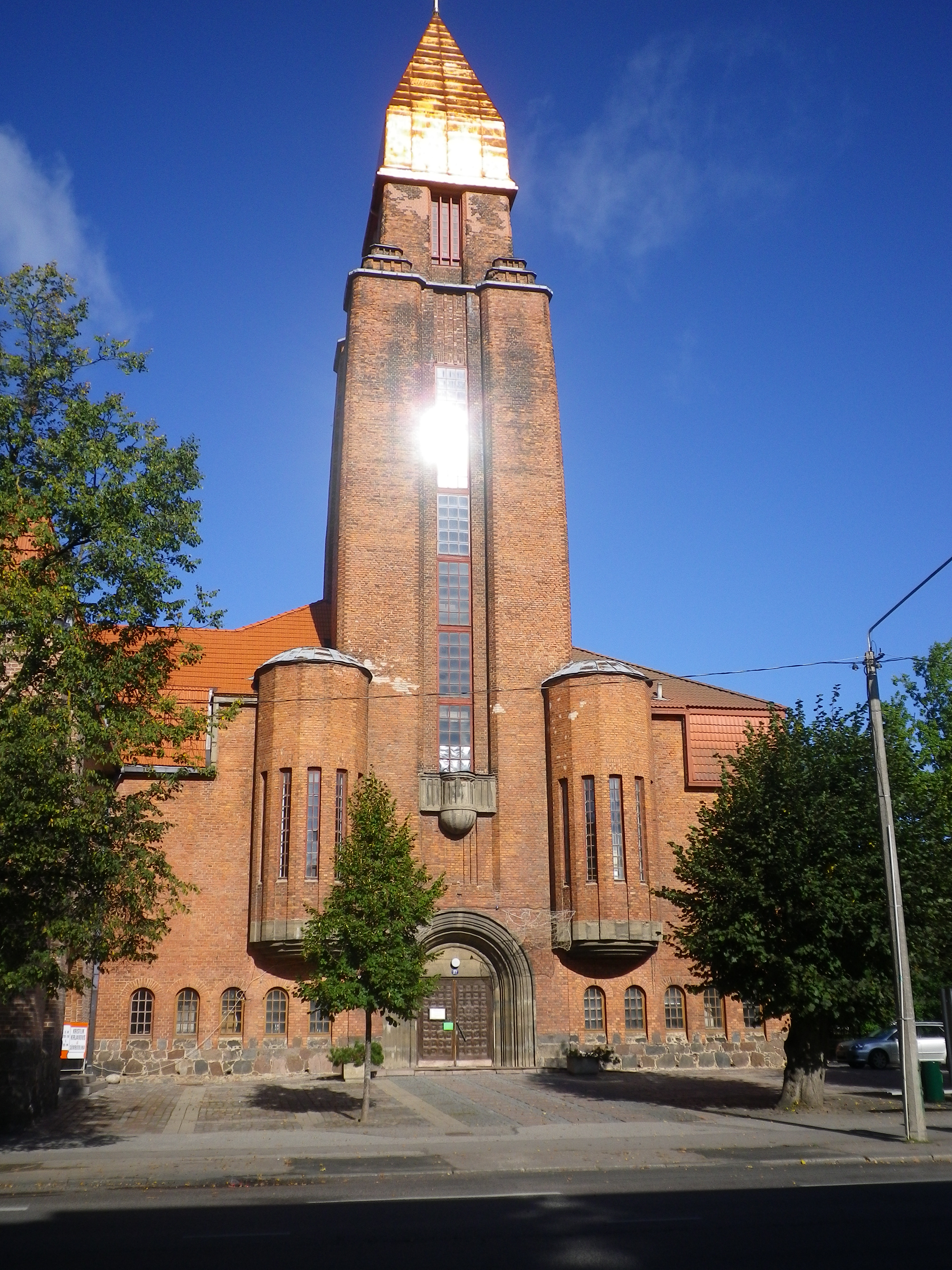 St Paul's Church, Tartu